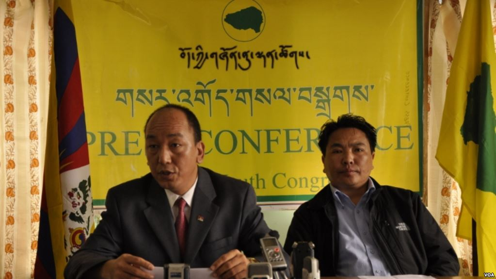 Tibetan Youth Congress President Tsewang Rigzin at Press Conference in 2012